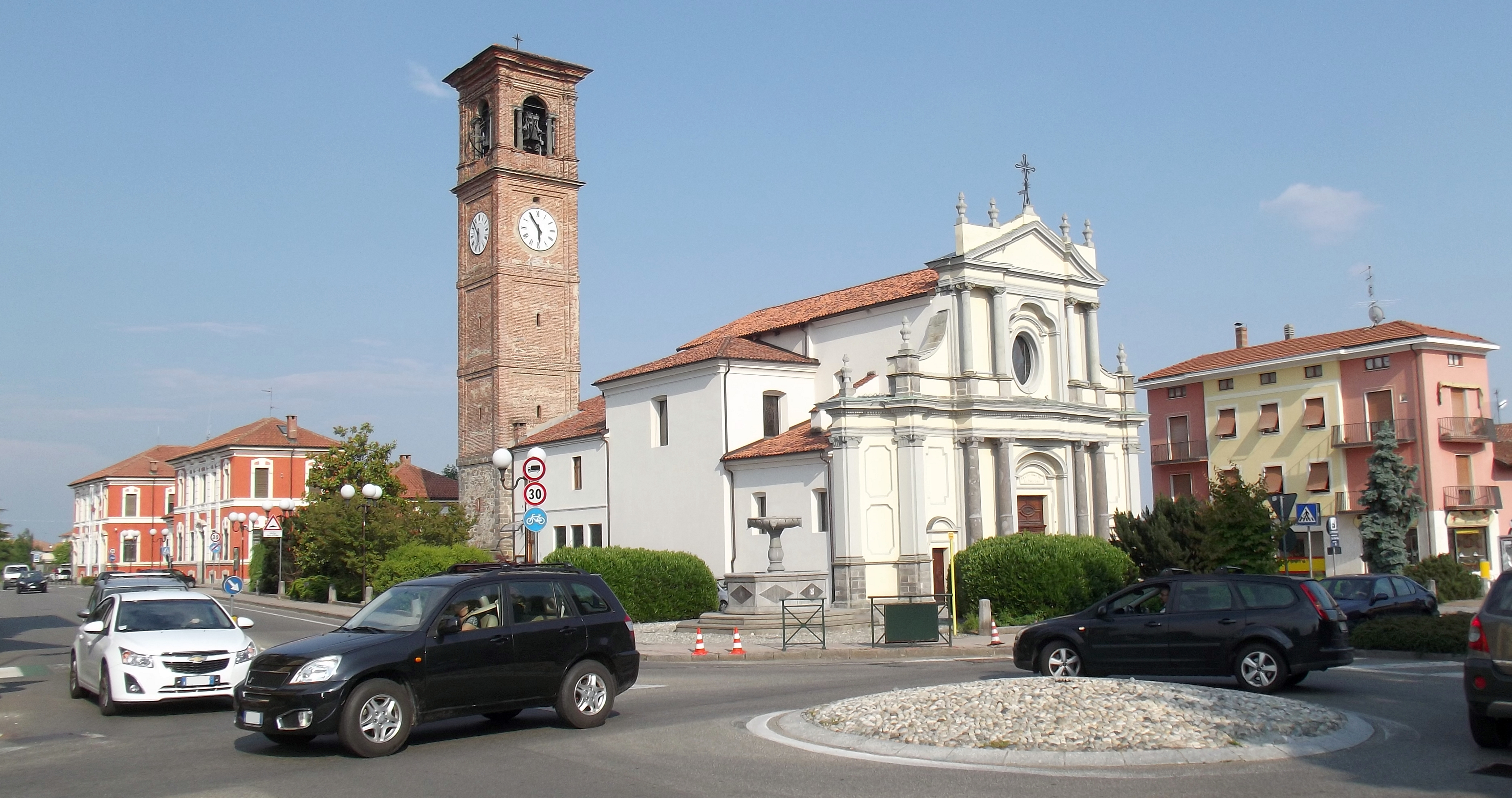 Gaglianico (BI, Italy): panorama